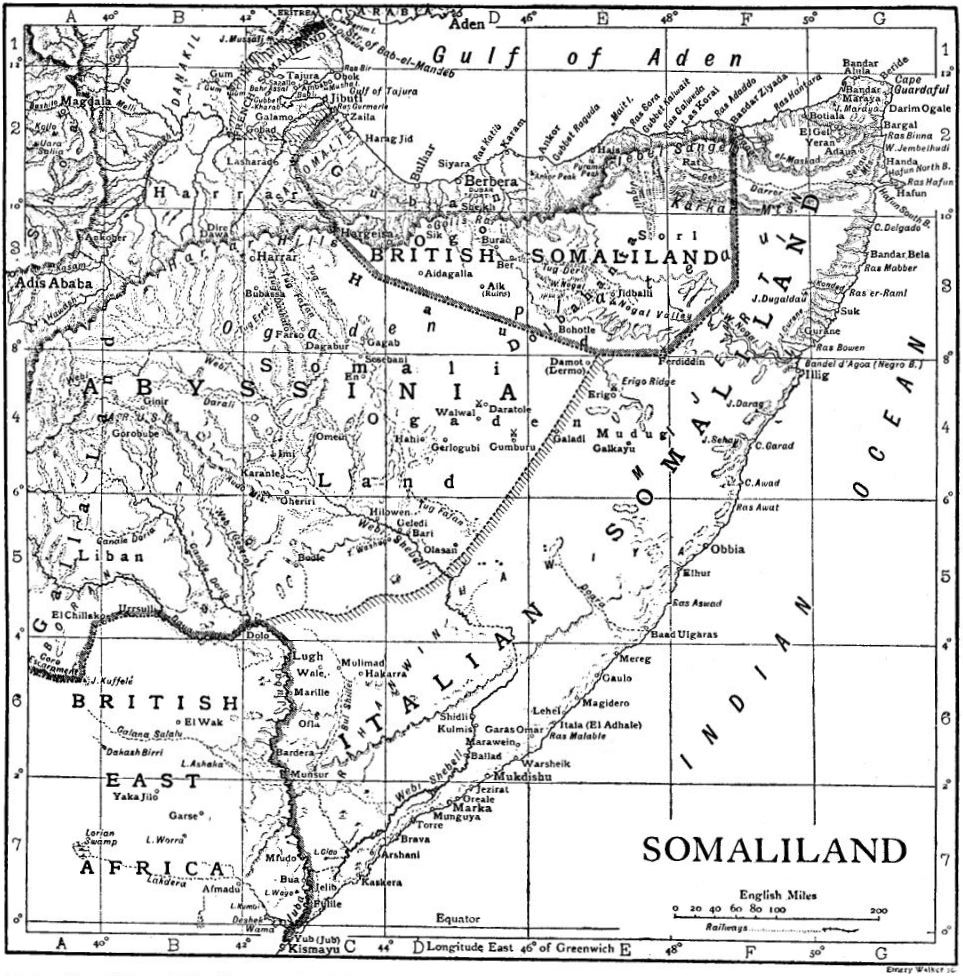 A map of the French, British, Italian, and Abyssinian [i.e., Ethiopian] Somalilands [i.e., Somalia and Djibouti] c. 1911.